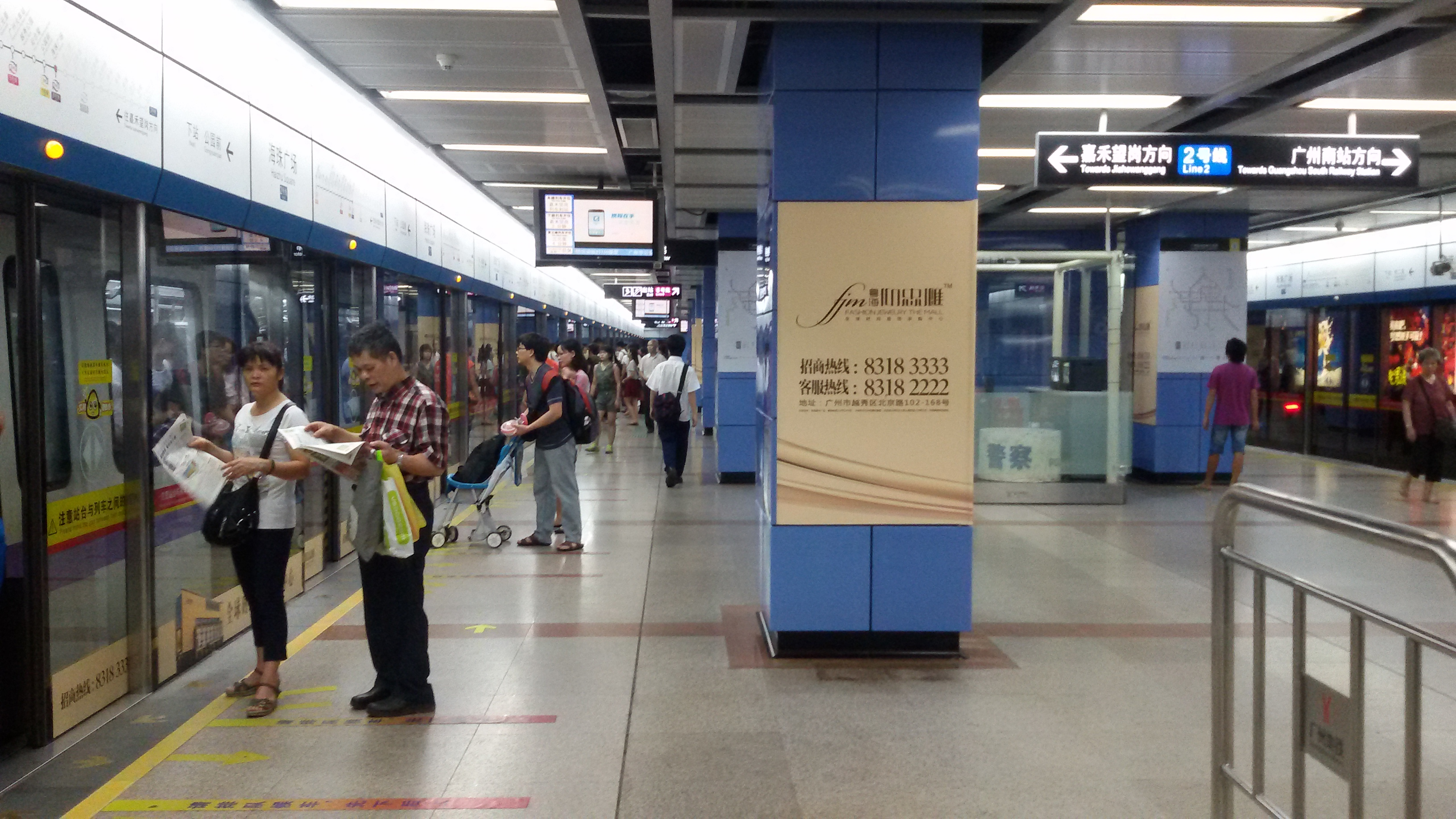 Platform for Haizhu Square Station in Line 2, Guangzhou Metro.